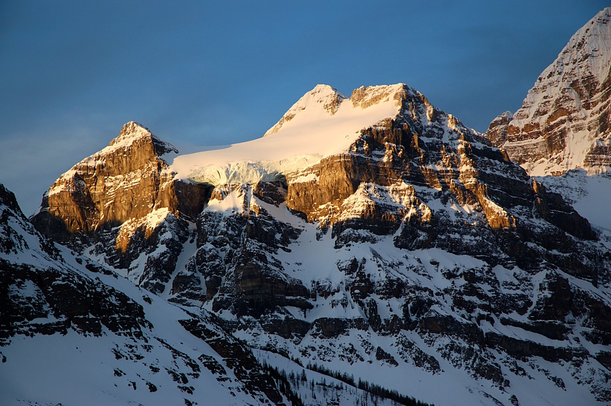 Mount Magog in Mount Assiniboine Park, Canada